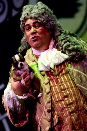 foto di scena